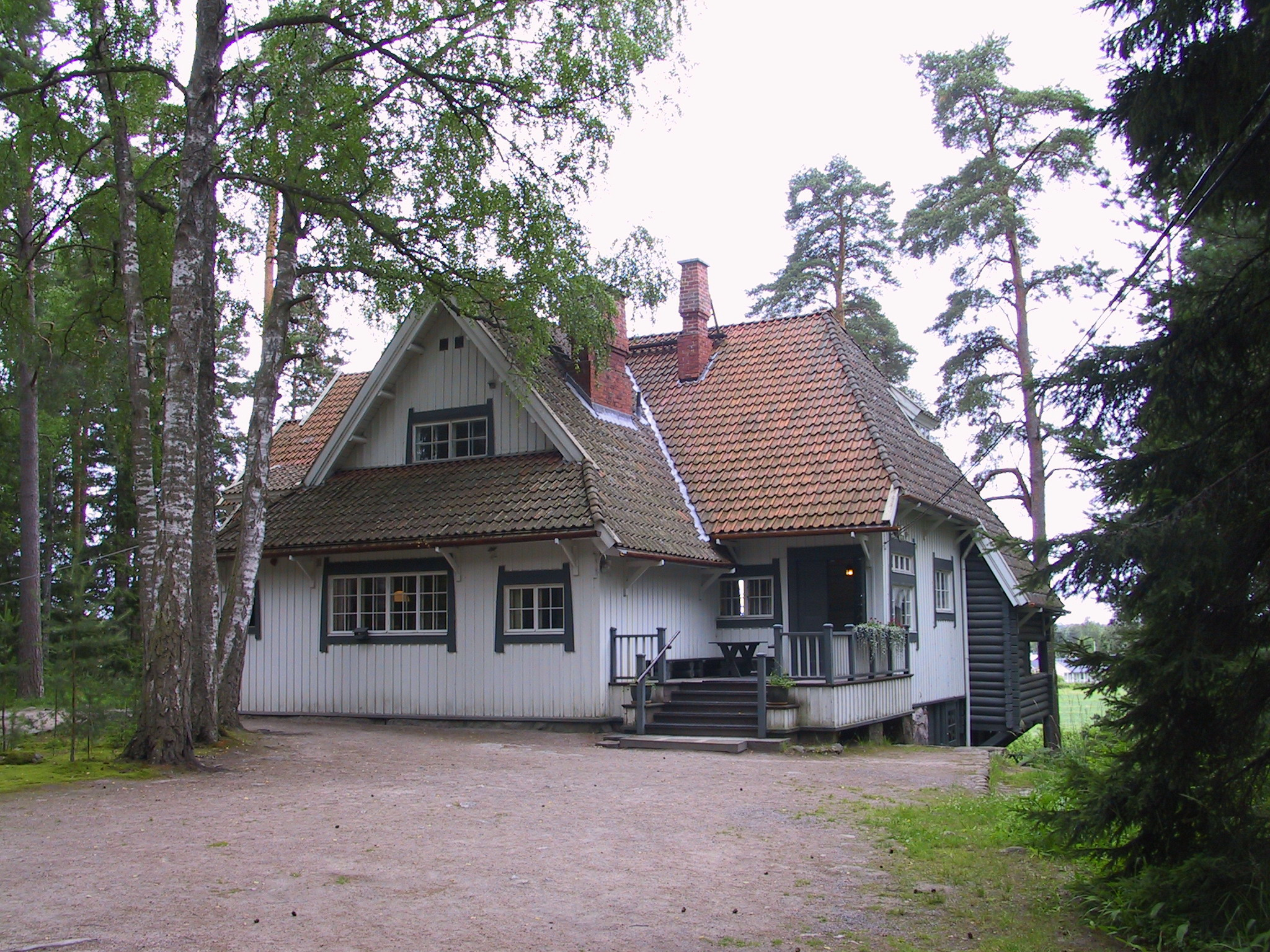 Ainola, the home of Jean Sibelius, entrance. Järvenpää, Finland.